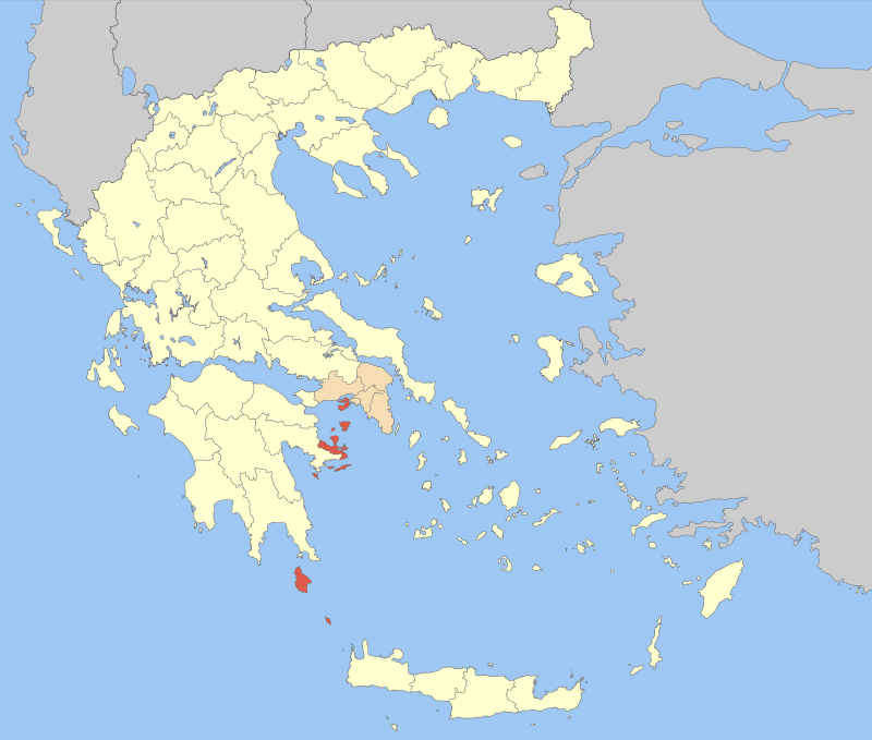 Enotita Nison